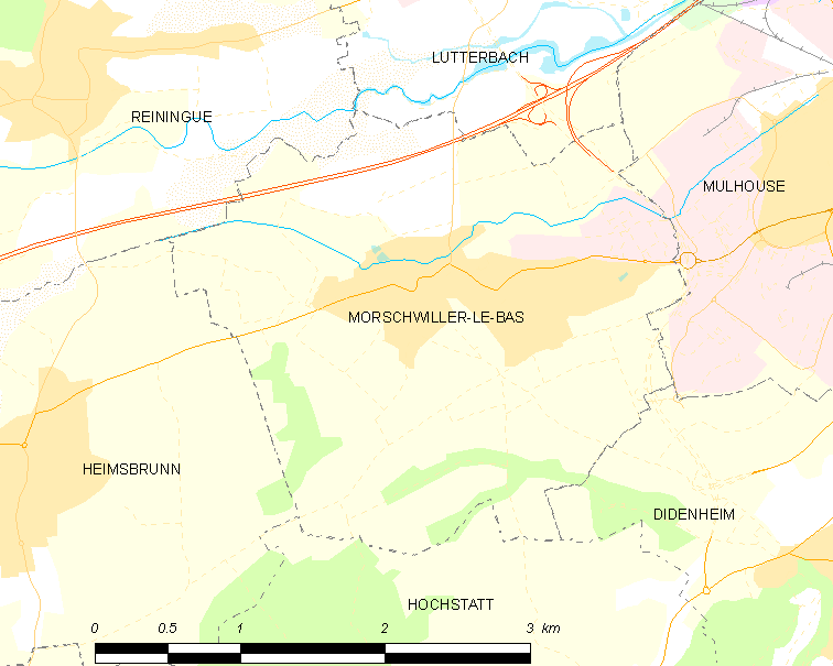 Map of French municipality